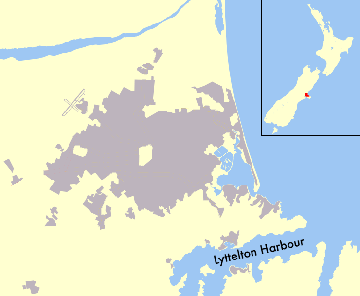 Map showing the location of Lyttelton Harbour, Christchurch, New Zealand